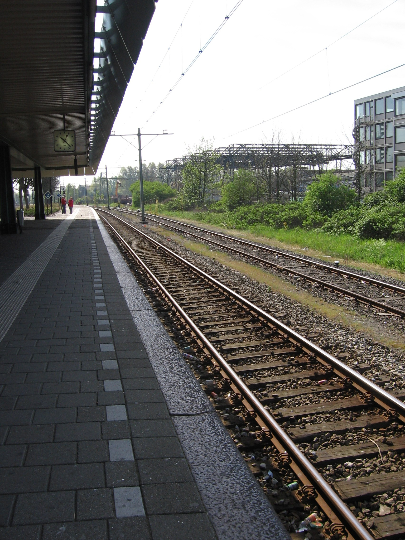 Track 1 station Maassluis